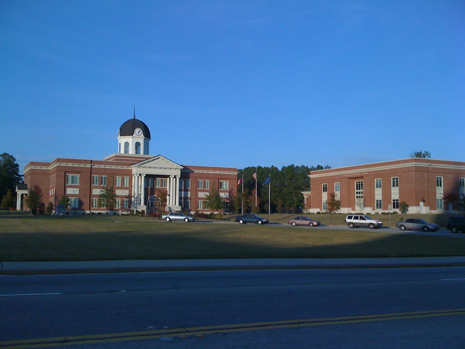 Snellville City Hall and Senior Center